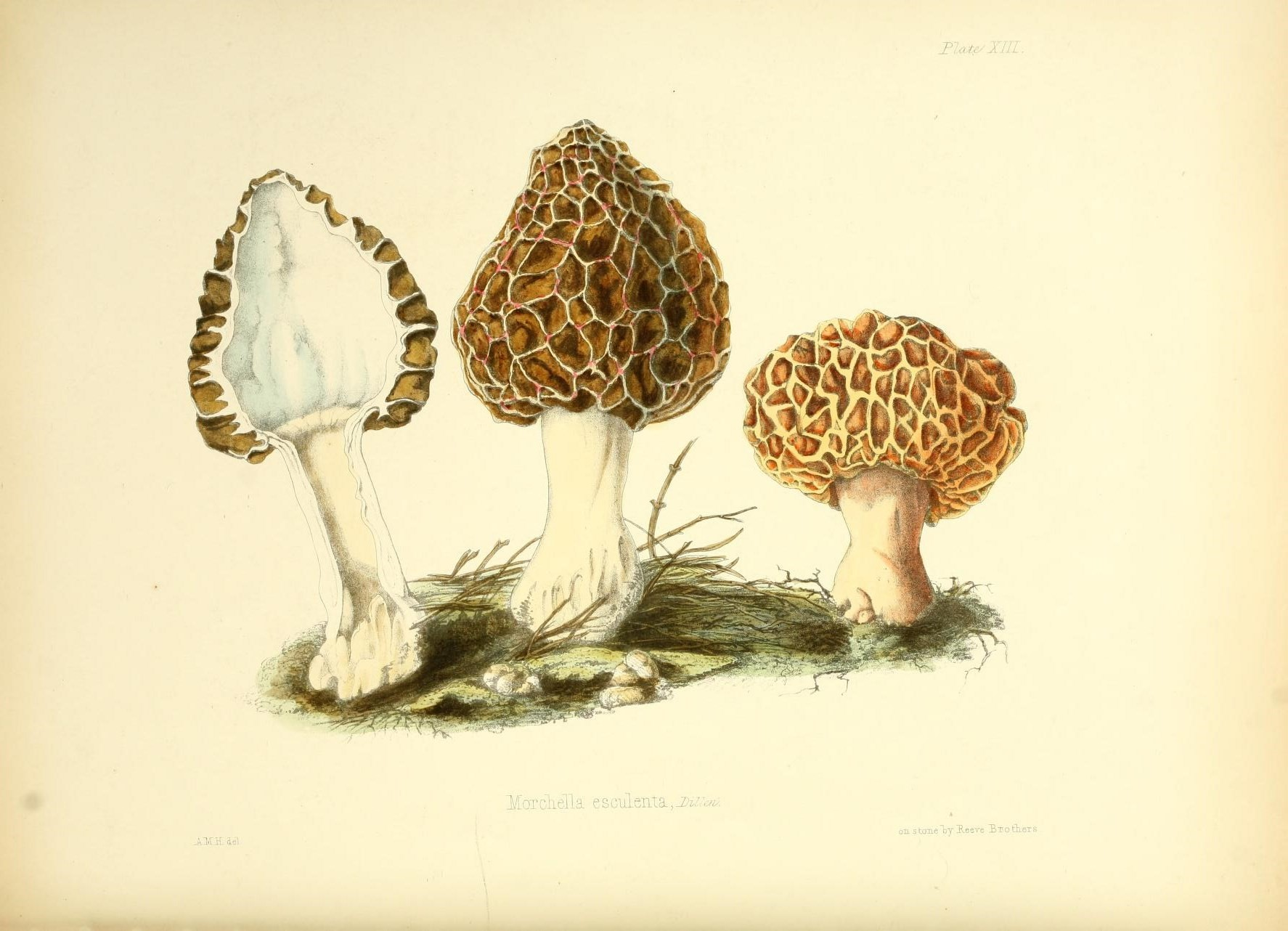 Morchella esculenta Plate XIII illustrated by Anna Maria Hussey